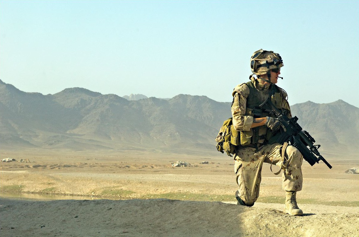 KANDAHAR, Afghanistan - Canadian Cpl. Shane Taylor, Kandahar Provincial Reconstruction Team (PRT) waits as other PRT soldiers discuss neighborhood issues with a local elder, August 26, 2008. The Kandahar PRT has worked on many construction projects such as schools and government facilities to assist the Afghan government improve the lives of residents (ISAF Photo by Staff Sgt. Jeffrey Duran).